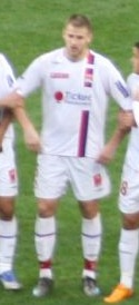 Mathieu Bodmer and Olympique Lyon